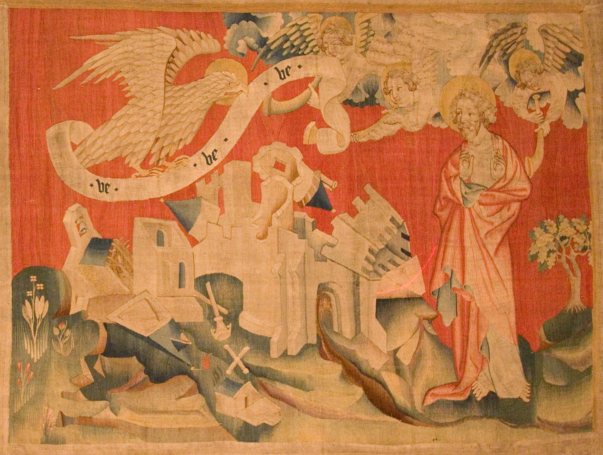 L'aigle de malheur (tapisserie de l'Apocalypse) / The Eagle of Doom (Tapestry of the Apocalypse)